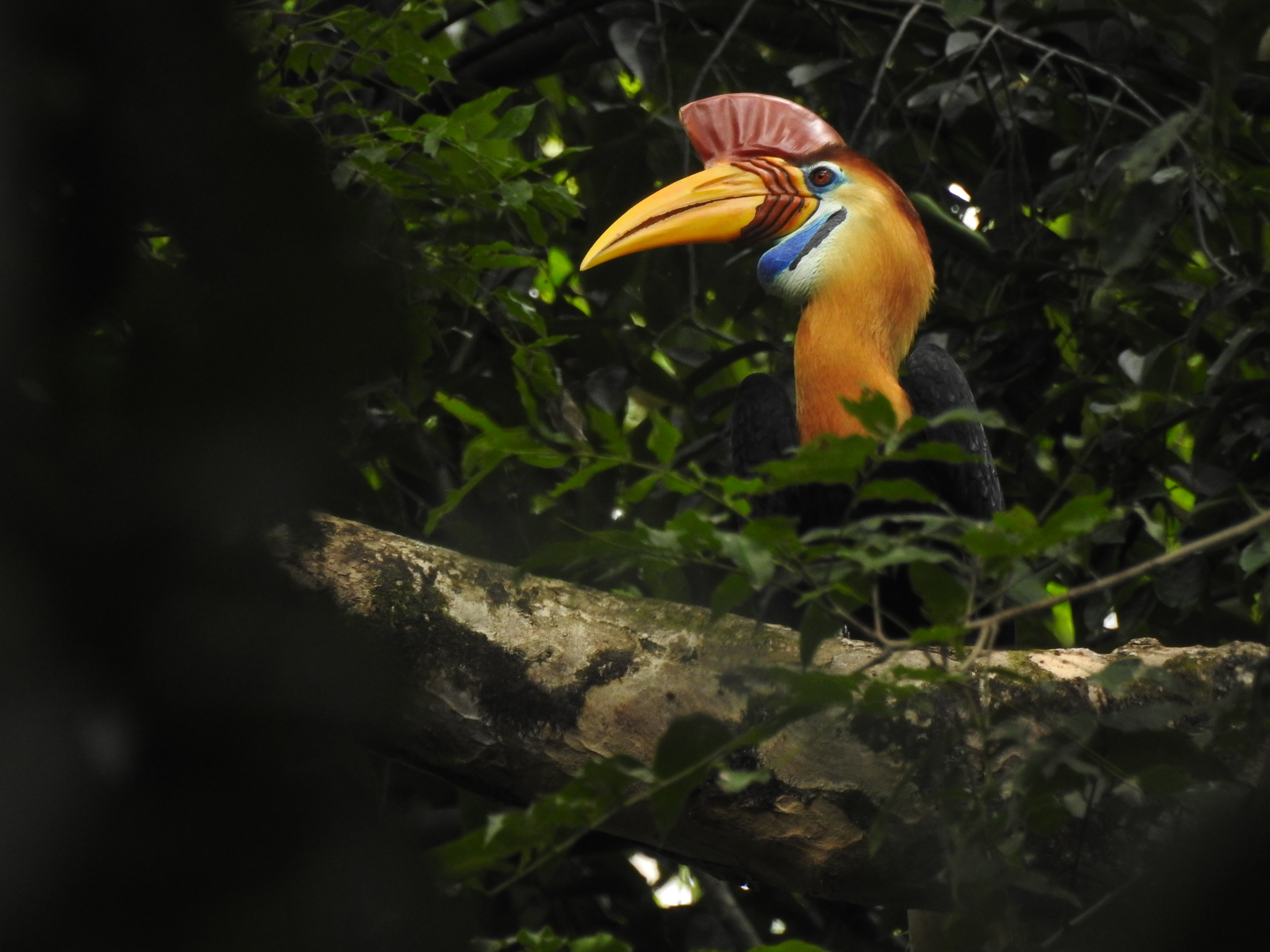 Male Knobbed Hornbill (Rhyticeros cassidix) in Tangkoko Nature Reserve, Sulawesi